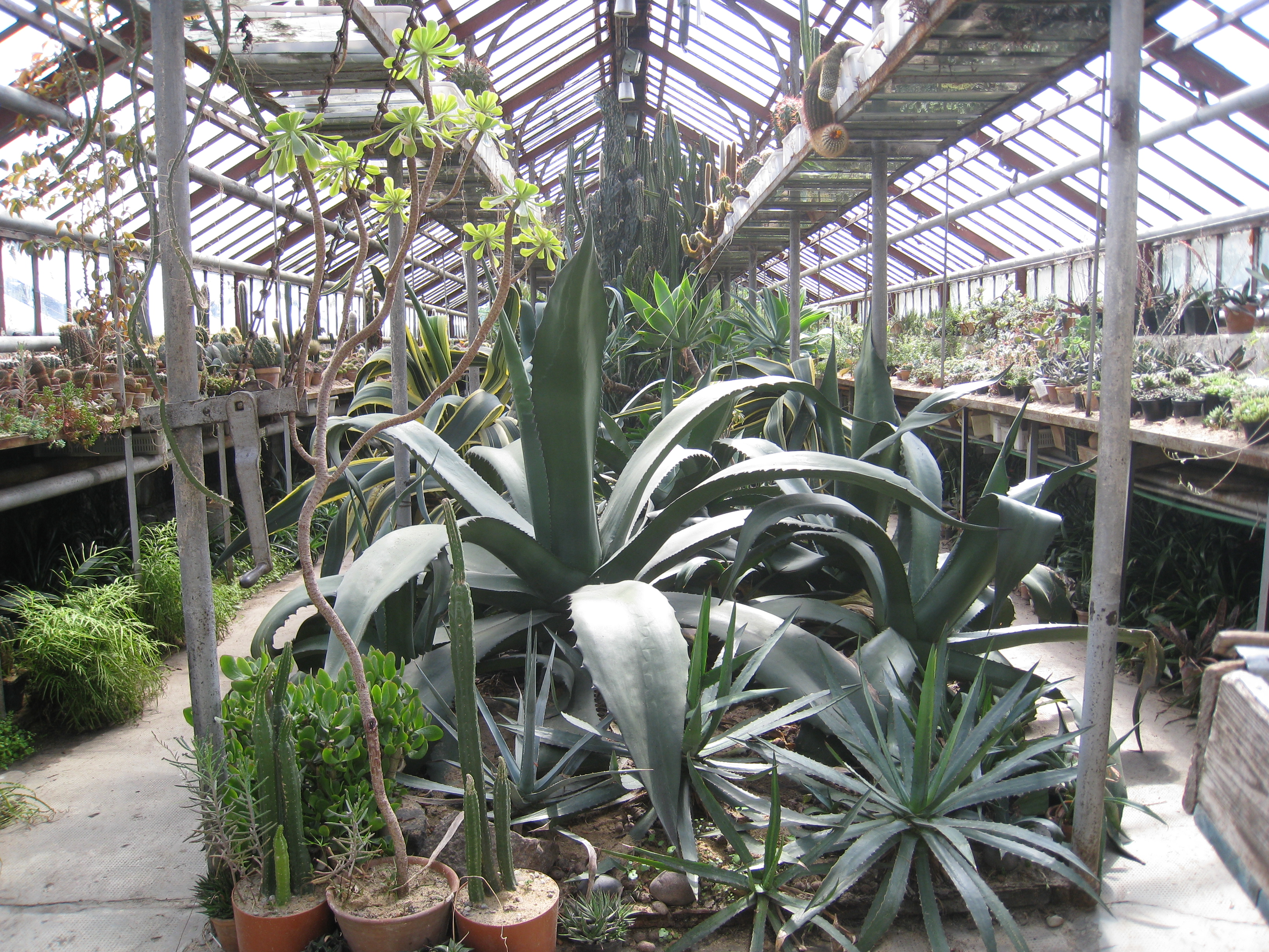 in the greenhouse